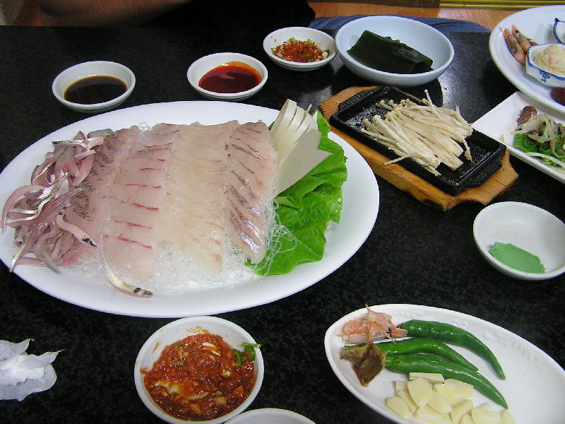 Hoe - Korean style raw fish